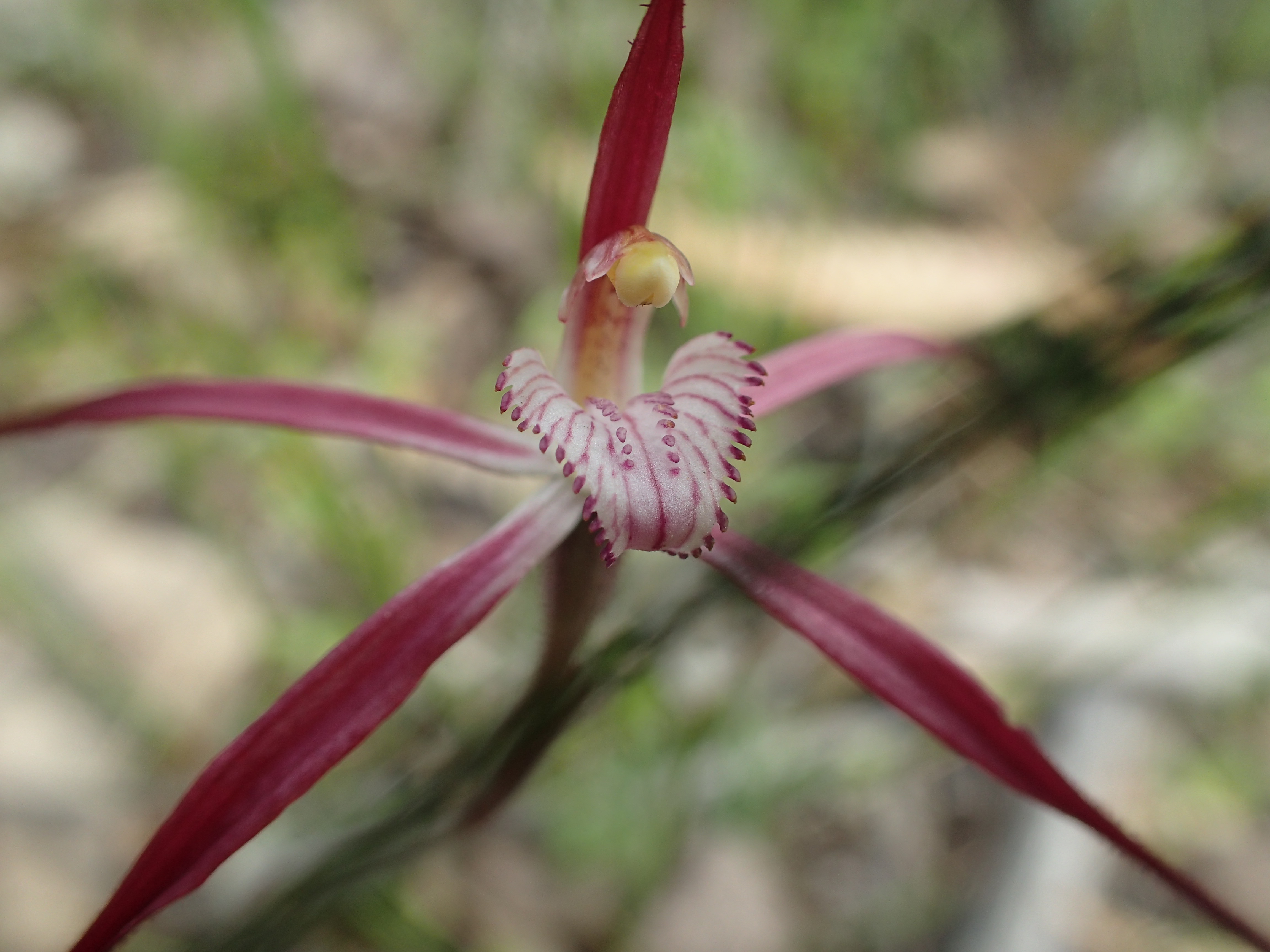 Caladenia footeana labellum close up